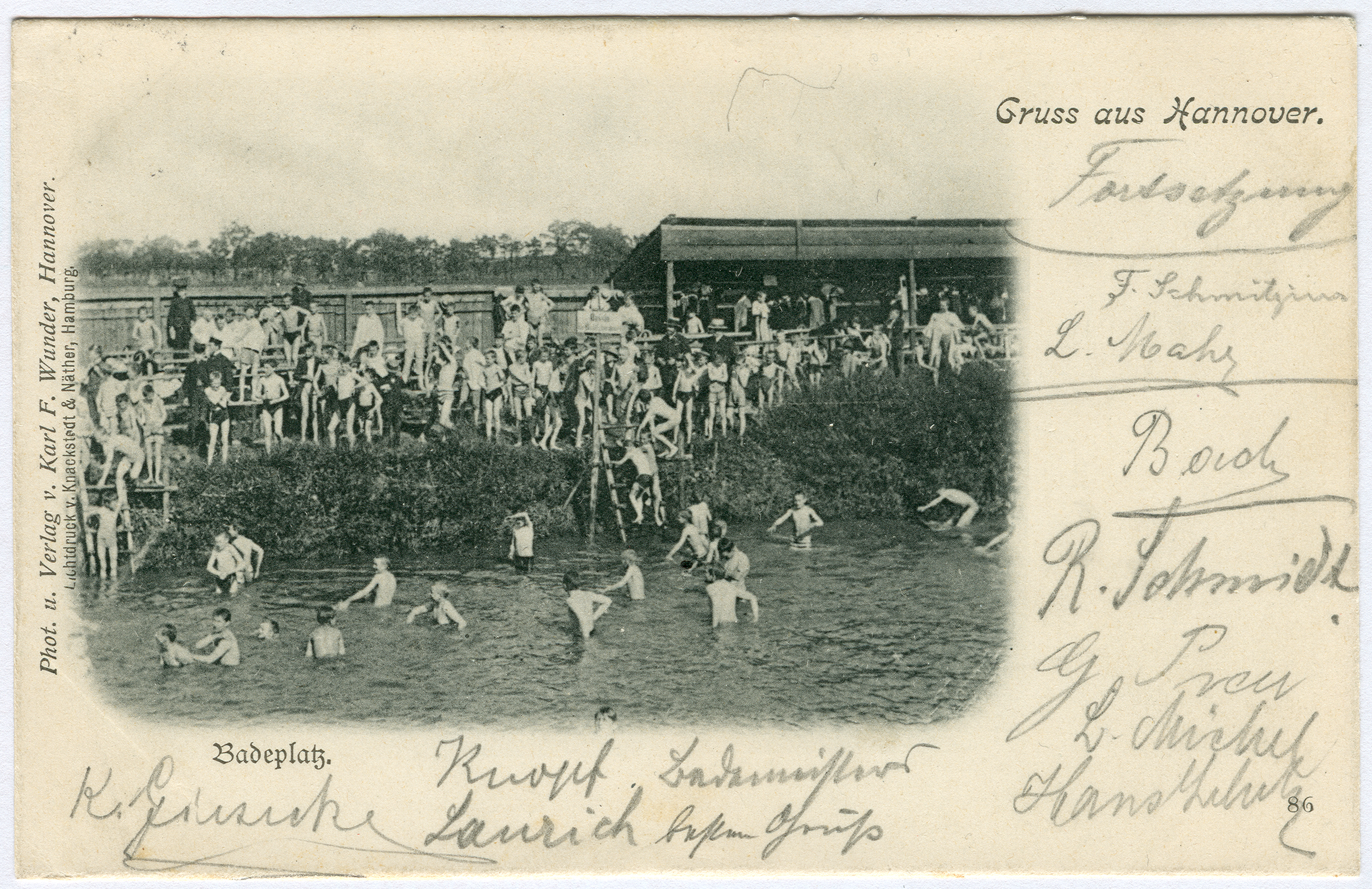 Hanover Bathing place in the river